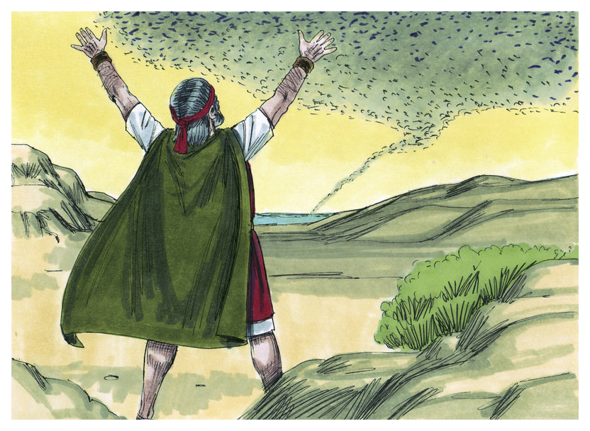 Biblical illustration of Book of Exodus Chapter 11